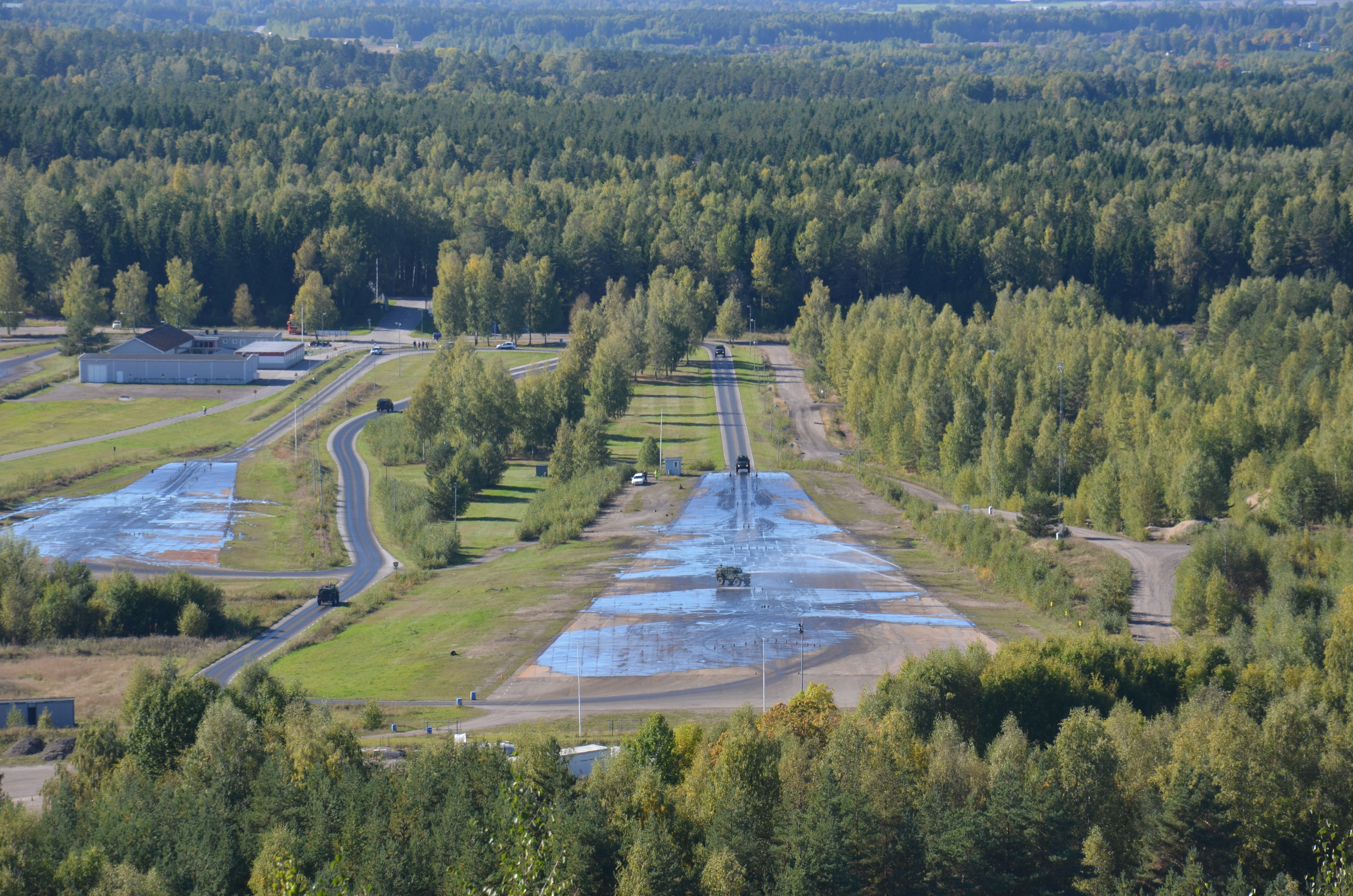 Halkbana Kvarntorp, Sweden (wet grip training driving range )